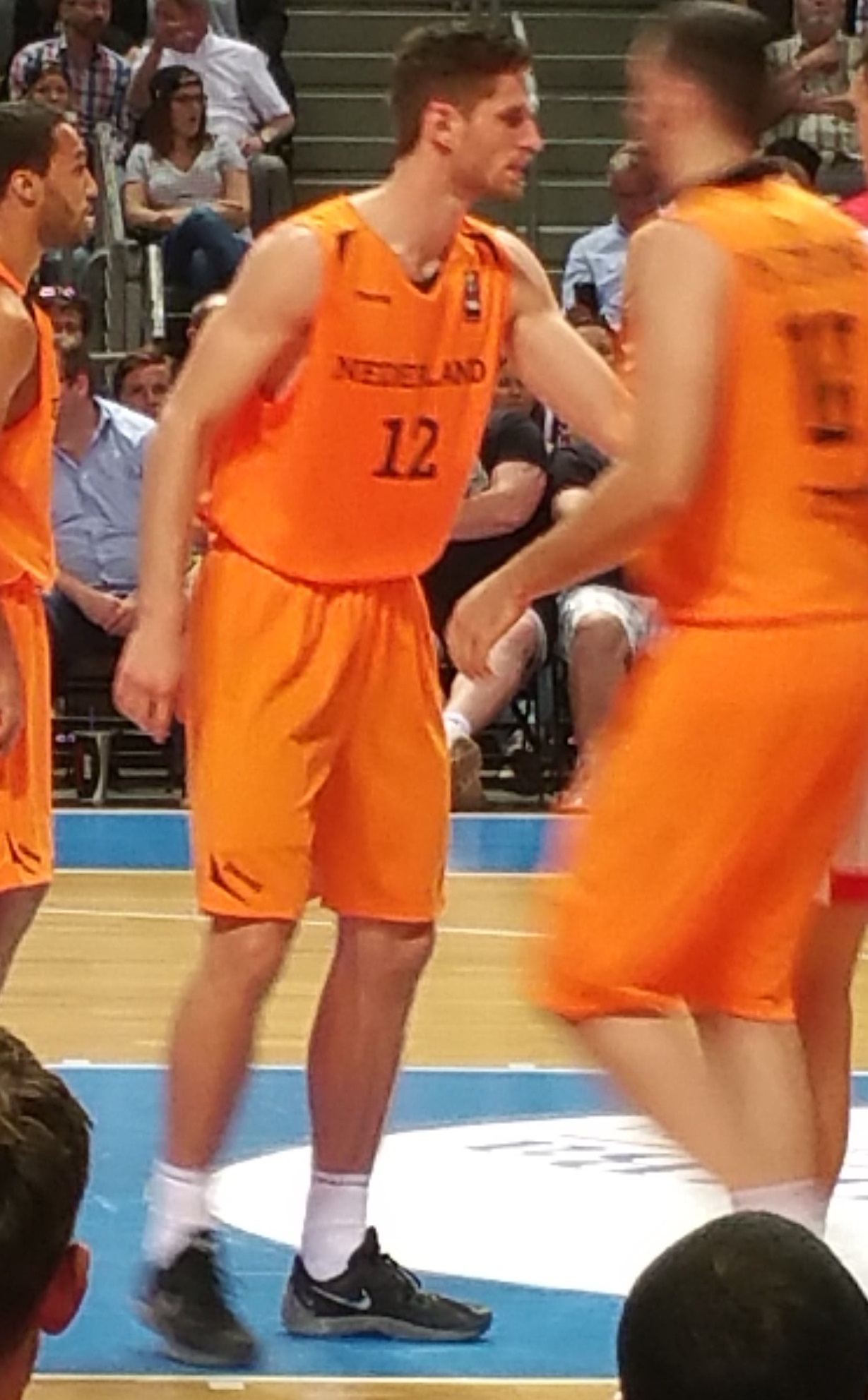 Thomas van der Mars during EuroBasket 2017 qualification